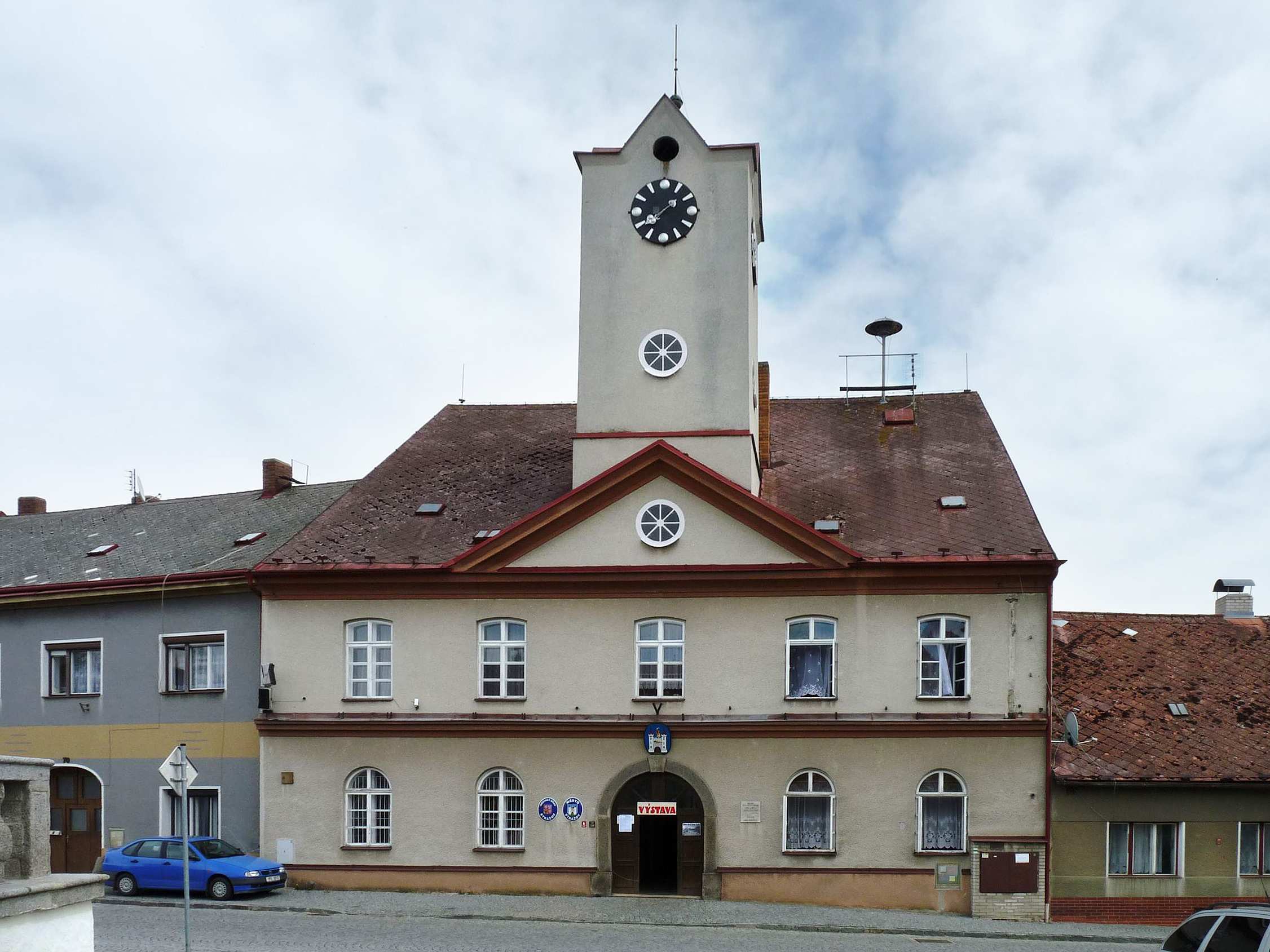 Town hall building in the town of Strážov, Klatovy District, Czech Republic.